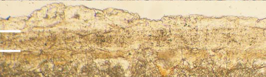 Petrographic thin sections of avian and non-avian theropod eggshells from the Upper Cretaceous. Gobioolithus minor Mikhailov, 1996a (ZPAL MgOv-III/11b), horizontal lines at left mark, from bottom to top, the boundaries between the mammillary layer, squamatic zone, and an outer recrystallized zone, possibly representing either diagenetic overgrowth or an altered biological external zone.